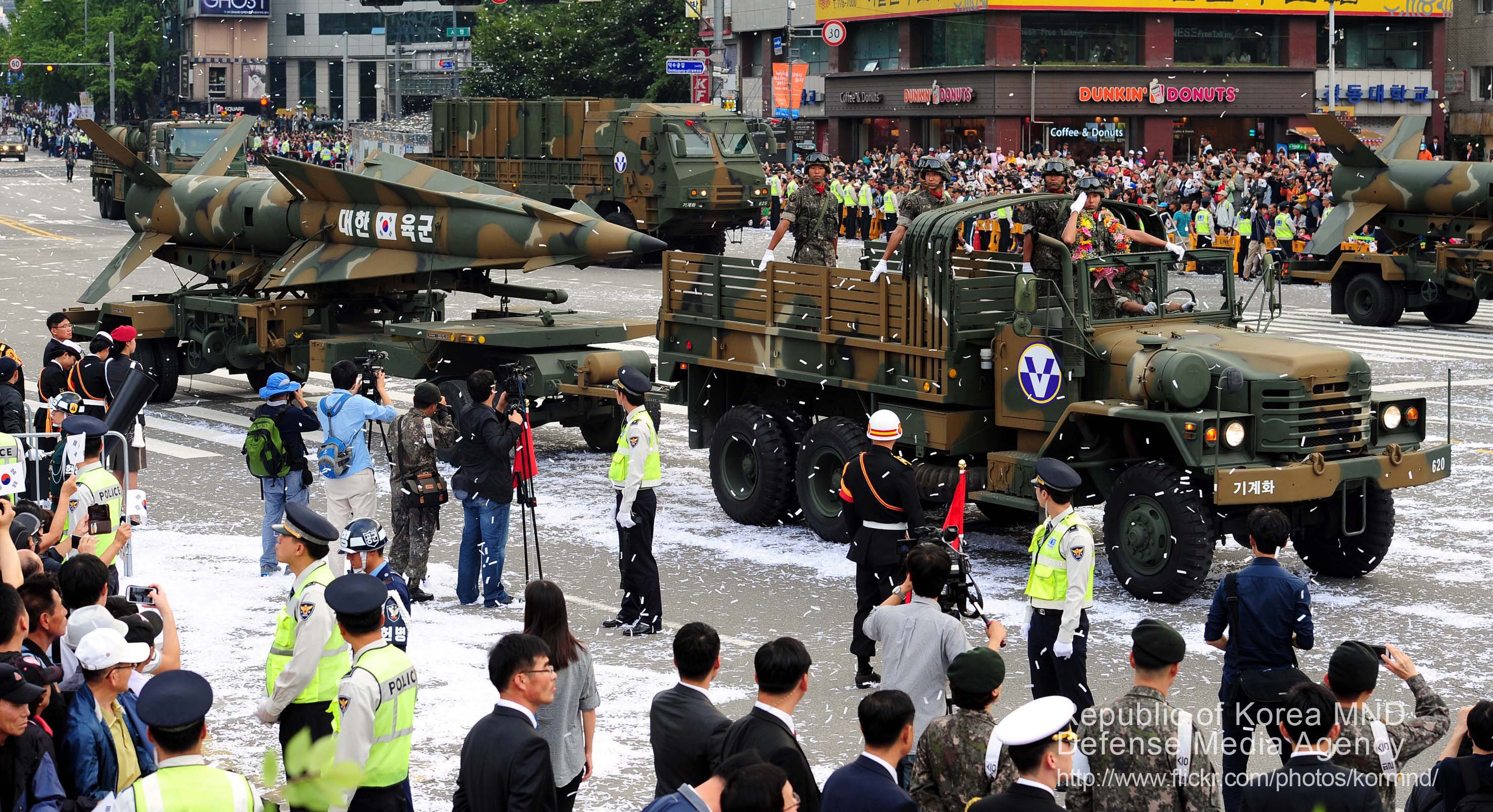 The celebration ceremony for the 65th Anniversary of ROK Armed Forces